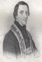 Portrait of Charlest Constantine Pise, 28th Chaplain of the United States Senate (1832-1833)